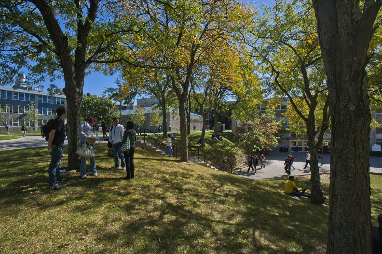 Near the Marvin Library Learning Commons entrance at Hudson Valley Community College. Brahan Hall quad.